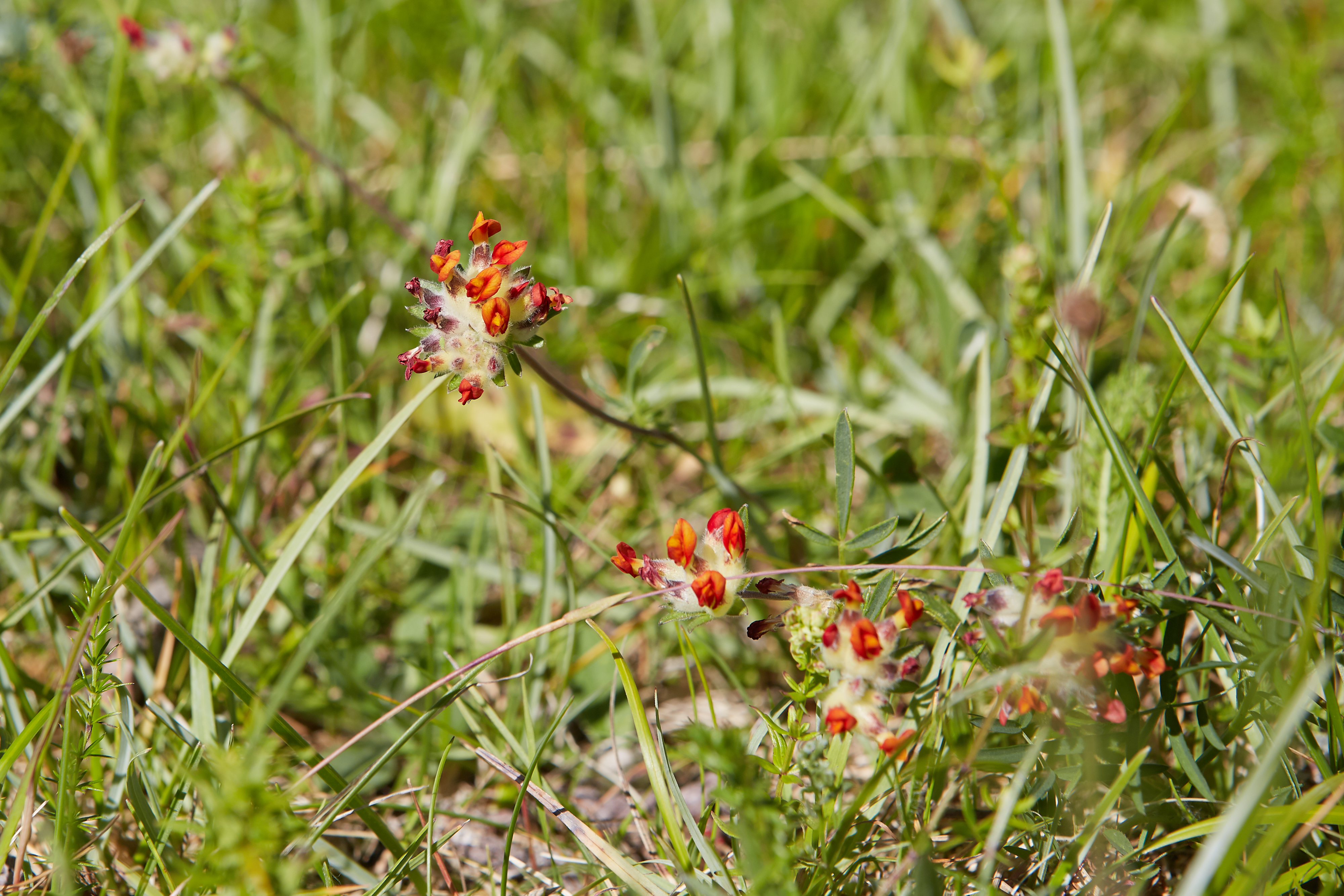 Anthyllis coccinea in Osmussaar, Estonia.